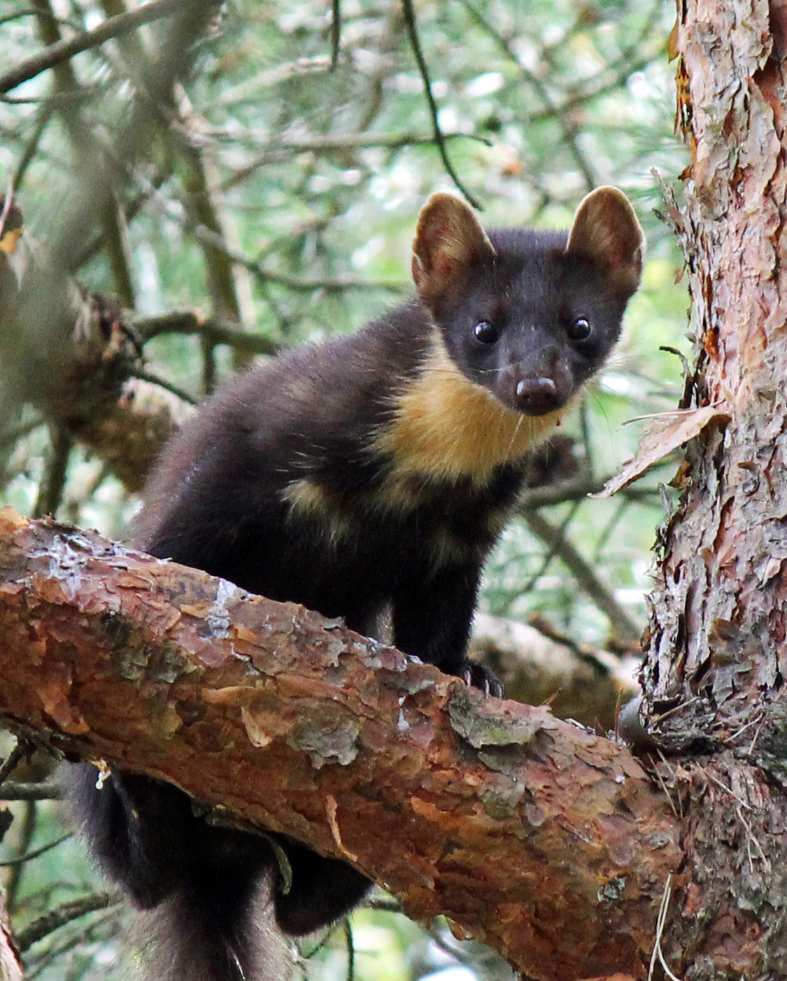 A European pine marten (Martes martes) in Sweden, 2012.